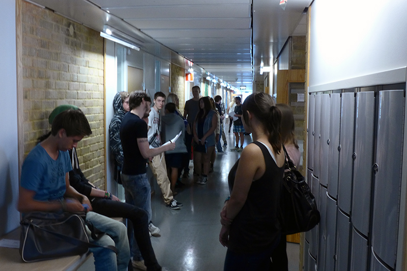 Korridor på Cybergymnasiet Odenplan